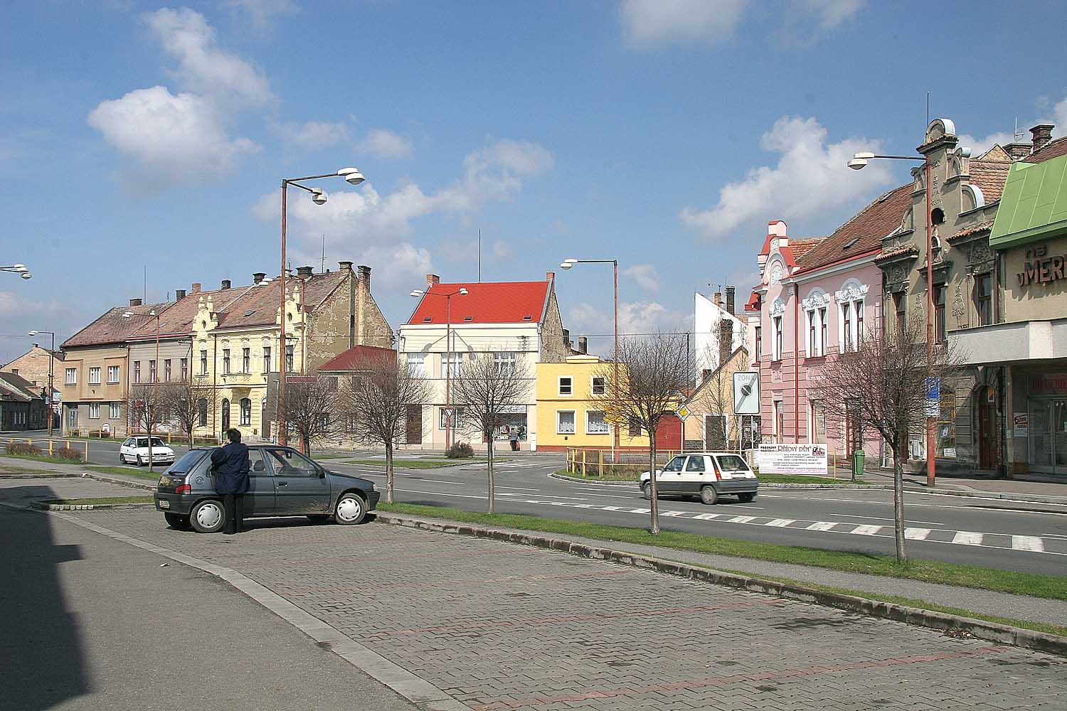 Town square Náměstí in Chrast, Chrudim District, Czech Republic